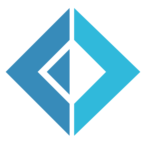 F# programming language logo